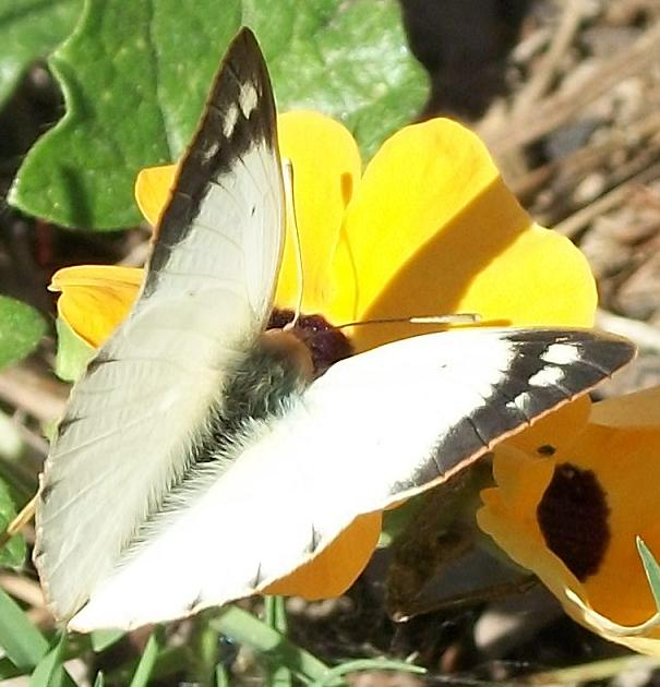 Female Colotis erone from Ilanda Wilds, Amanzimtoti, South Africa